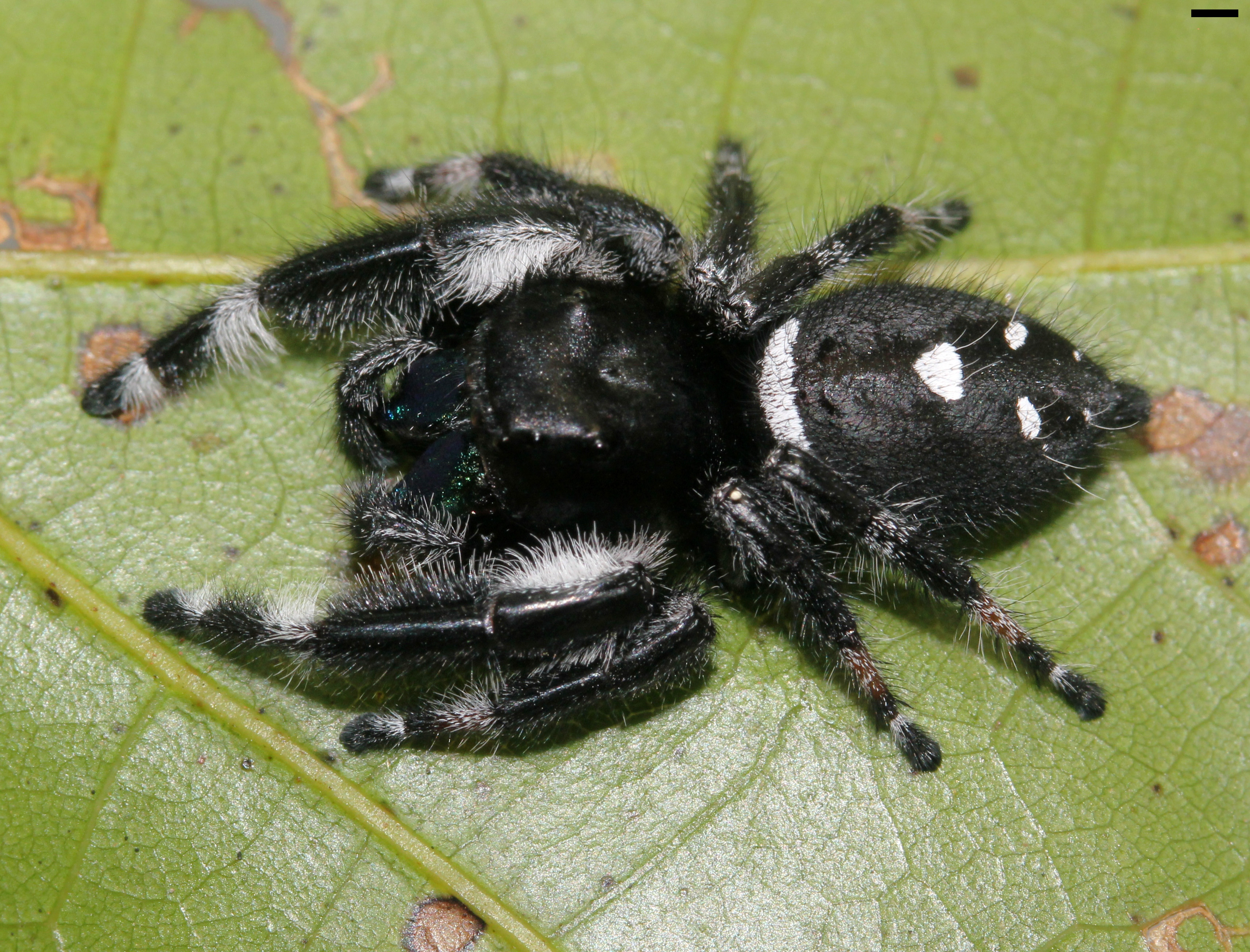 Adult male jumping spider (Phidippus regius), Nassau County, Florida, scale bar = 1.0 mm